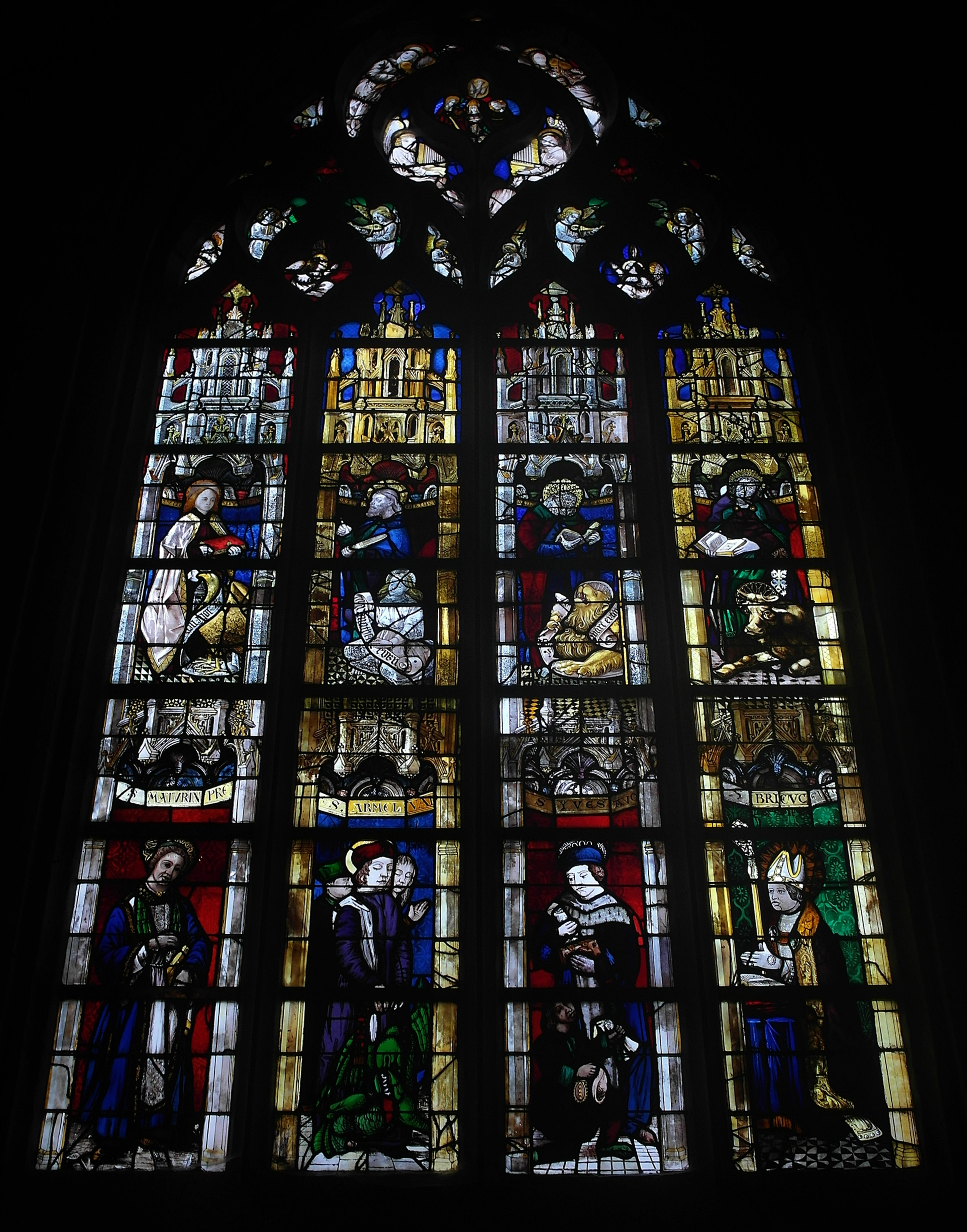 This stained glass, in the 4th chapel of the left aisle, dates from the XVth century. In the high part, angels playing hand organ should be stressed.